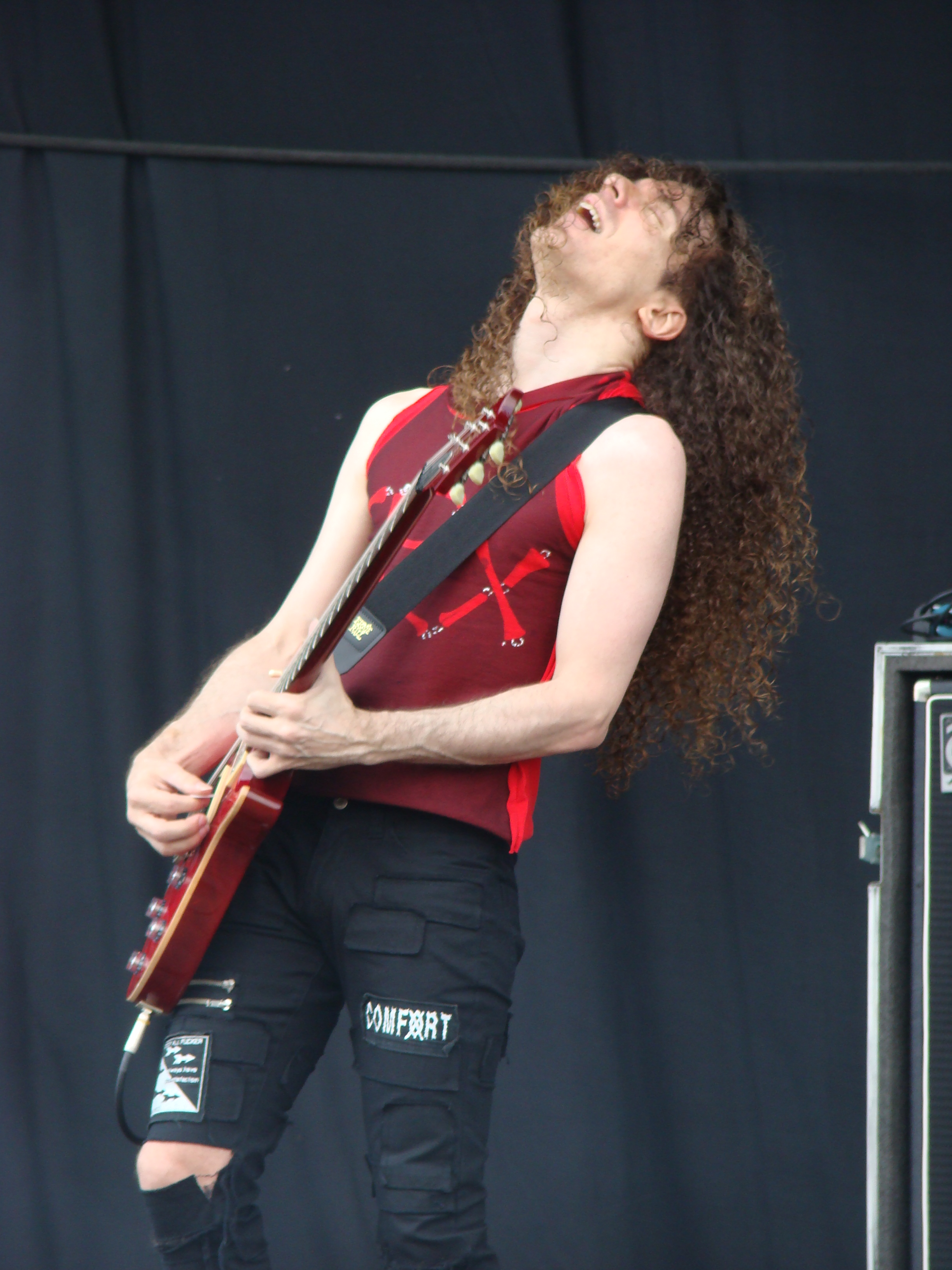 Gods of Metal 2009.